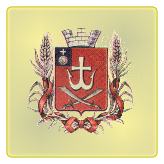 Coat of arms Vinnytsia Ukraine (project Kene)